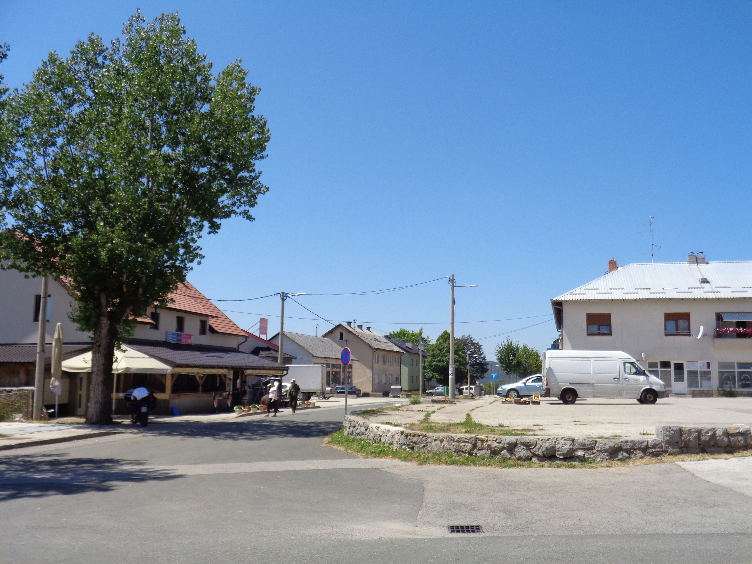 Udbina Municipality, Lika-Senj County, Croatia (2.)